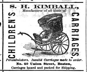 Advertisement, Boston, Massachusetts